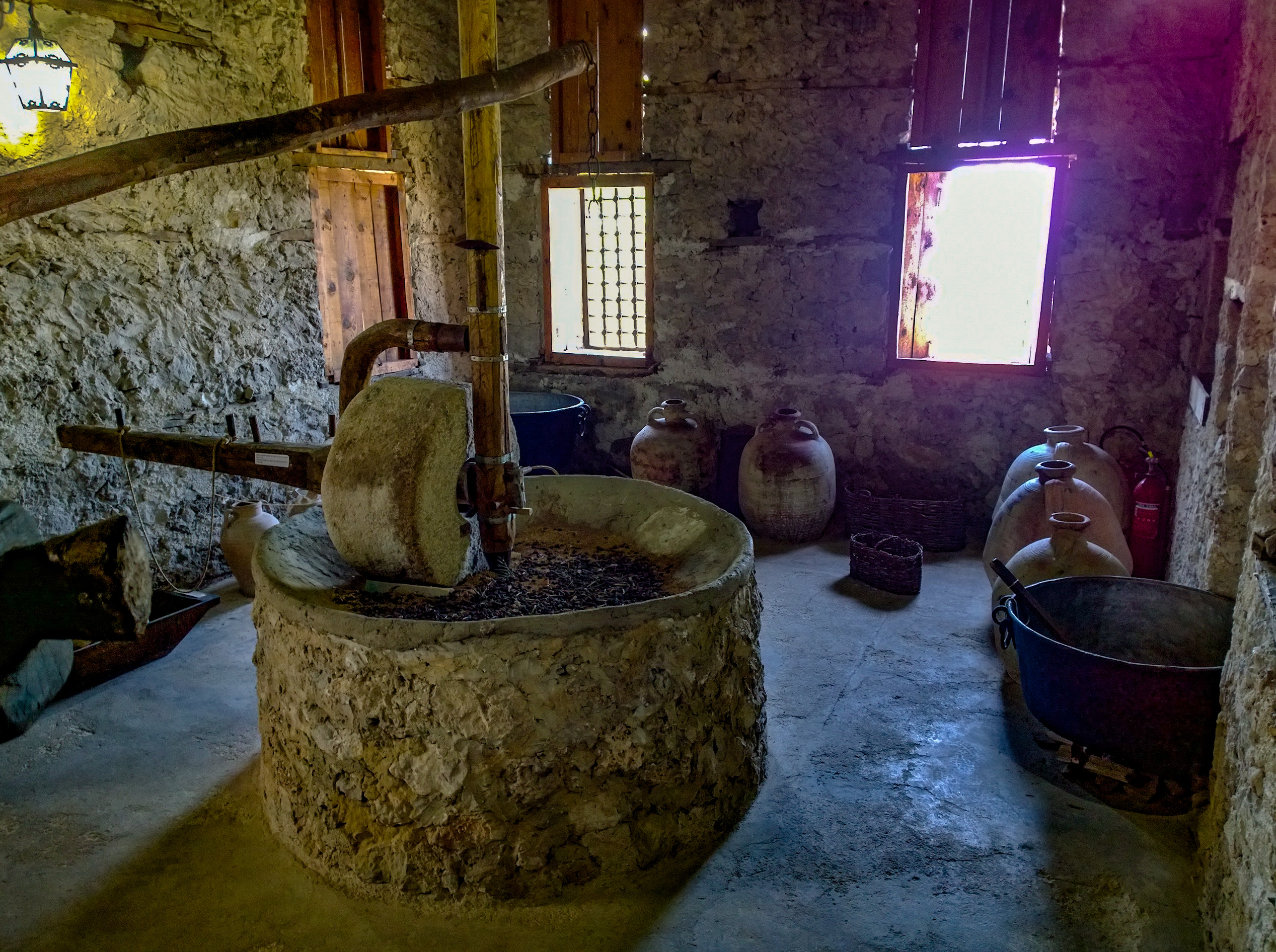 The olive oil maker's at the Toptani house. Now the Ethnographic Museum,Castle grounds, Kruja, Albania